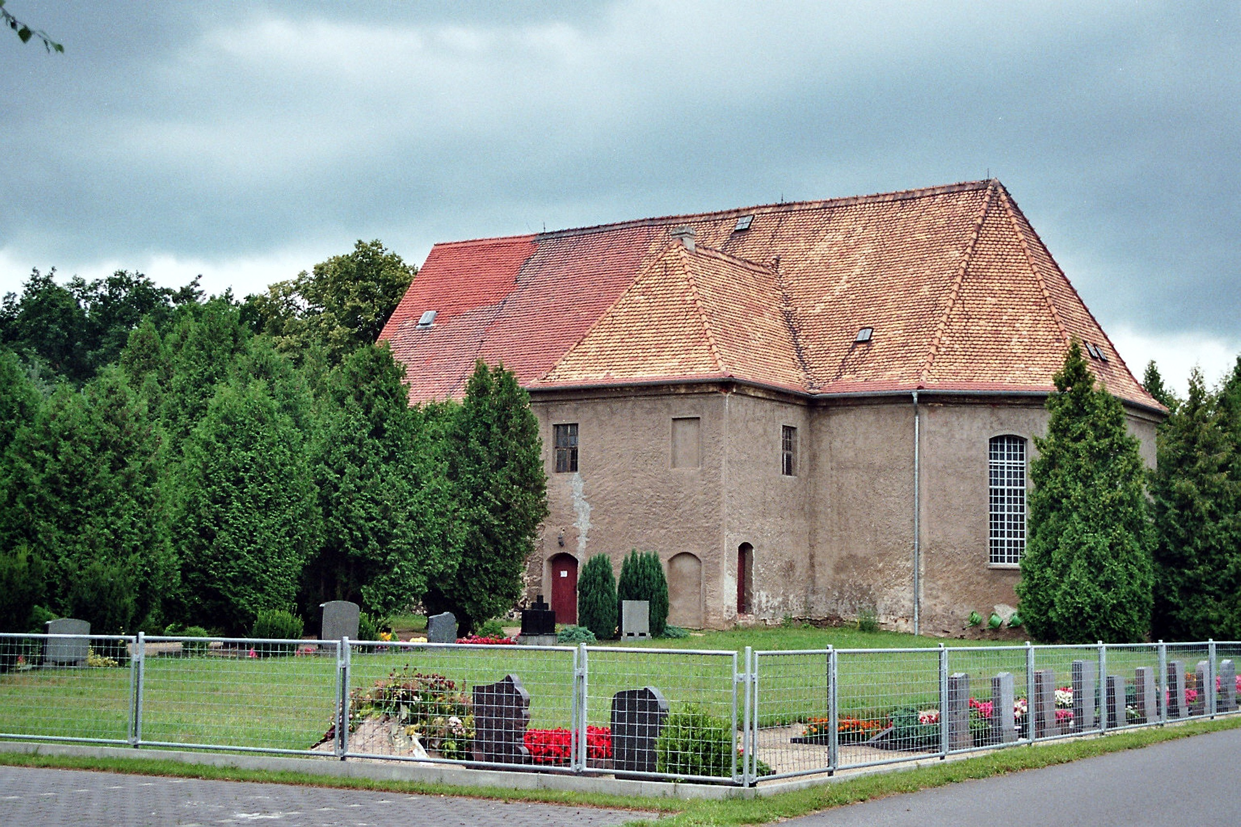 Hermsdorf (Oberlausitz), the village church